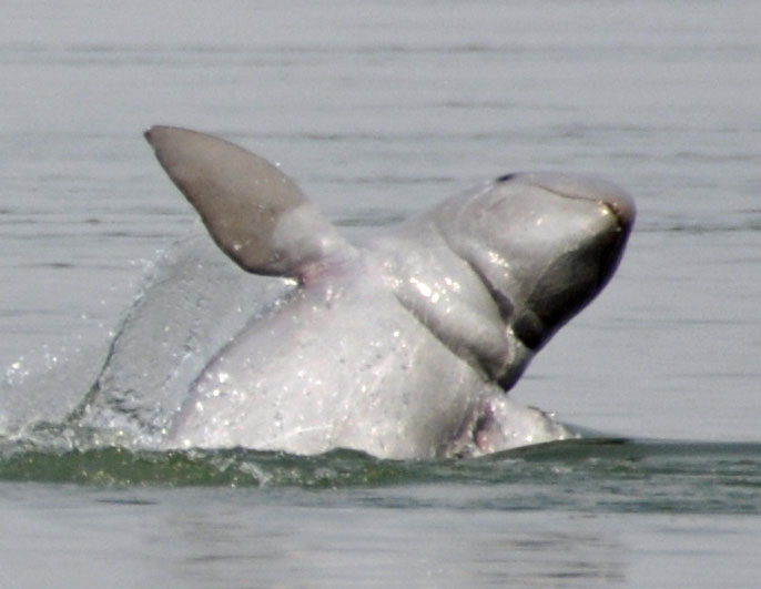 Jumping Irrawaddi dolphin (Orcaella brevirostris). Pictured at Mekong river, Kampi, Kratié, Cambodia in 2011.